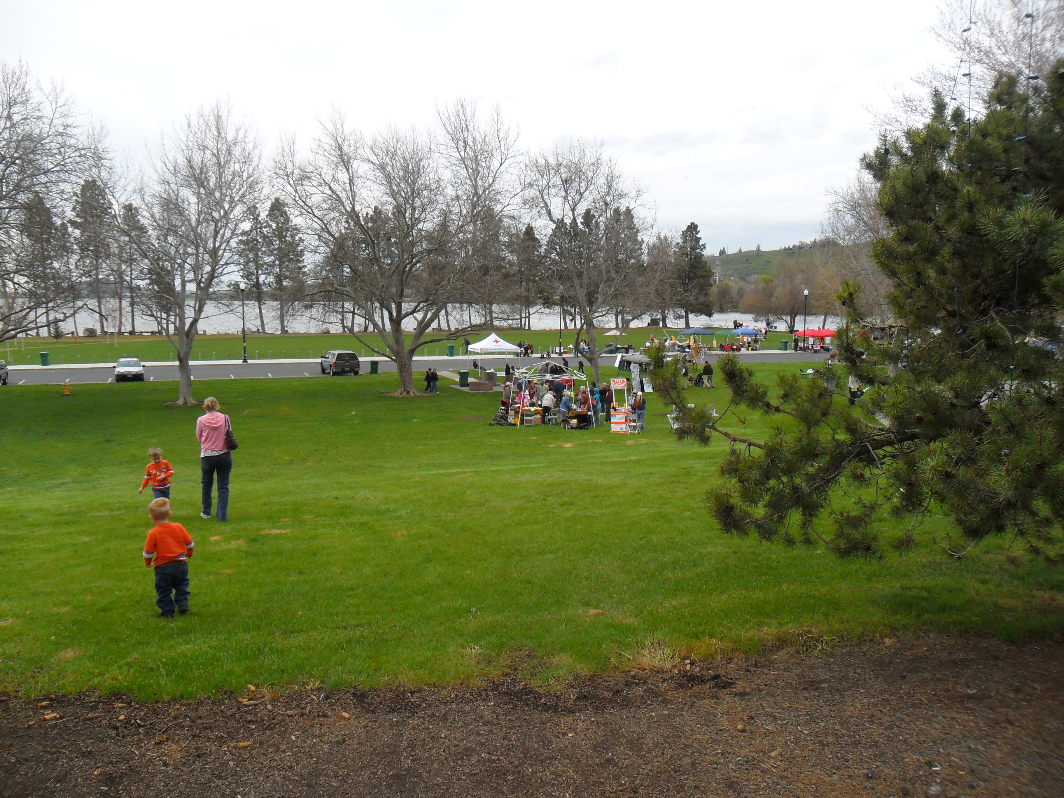 "Run for the Birds" fair in the Veterans Park, Klamath Falls, Oregon.